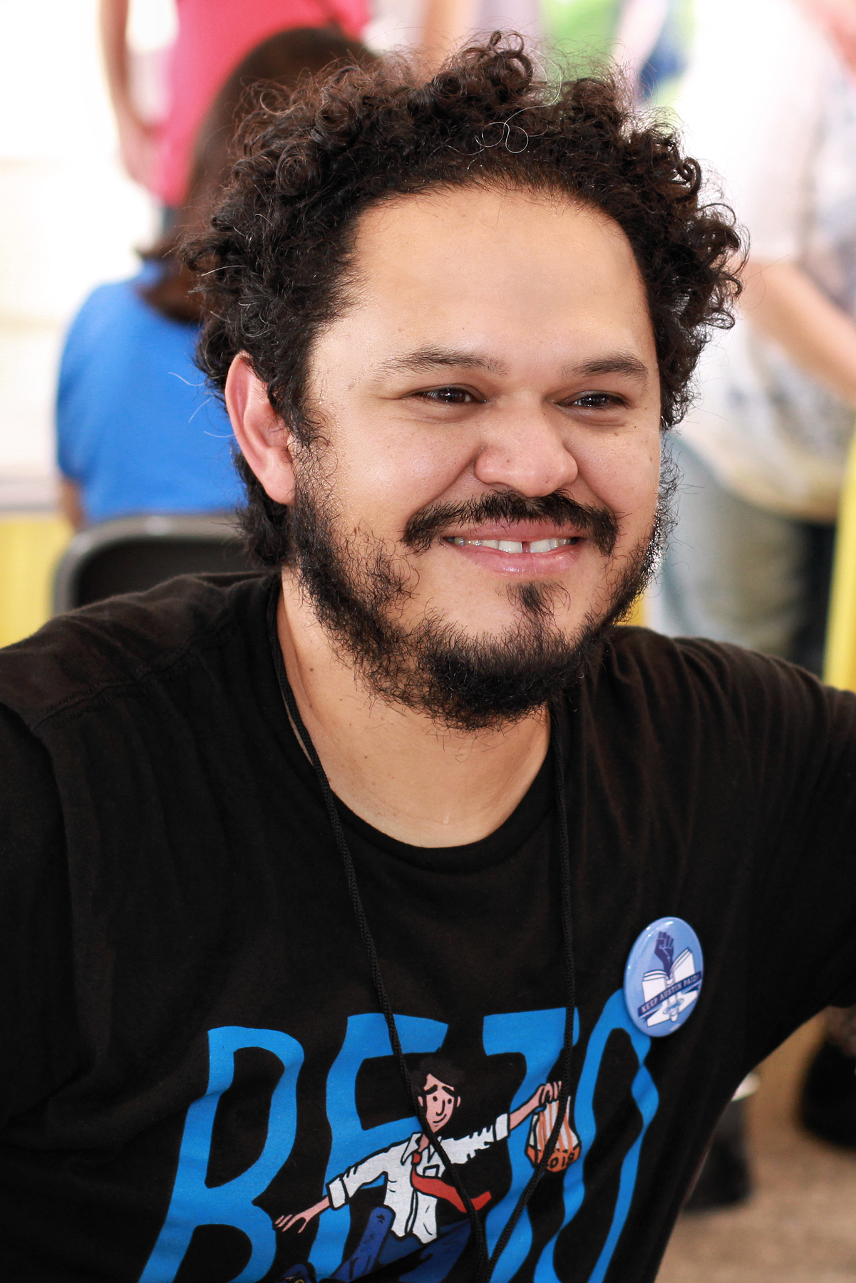 Artist Raul the Third at the 2018 Texas Book Festival in Austin, Texas, United States.